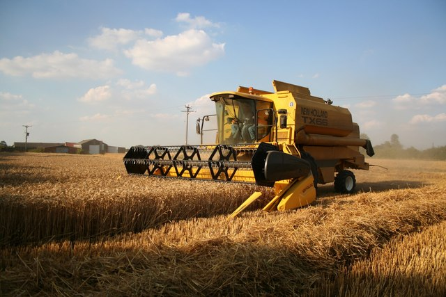 New Holland TX66 combine – Corn being harvested in Harby, Nottinghamshire, UK